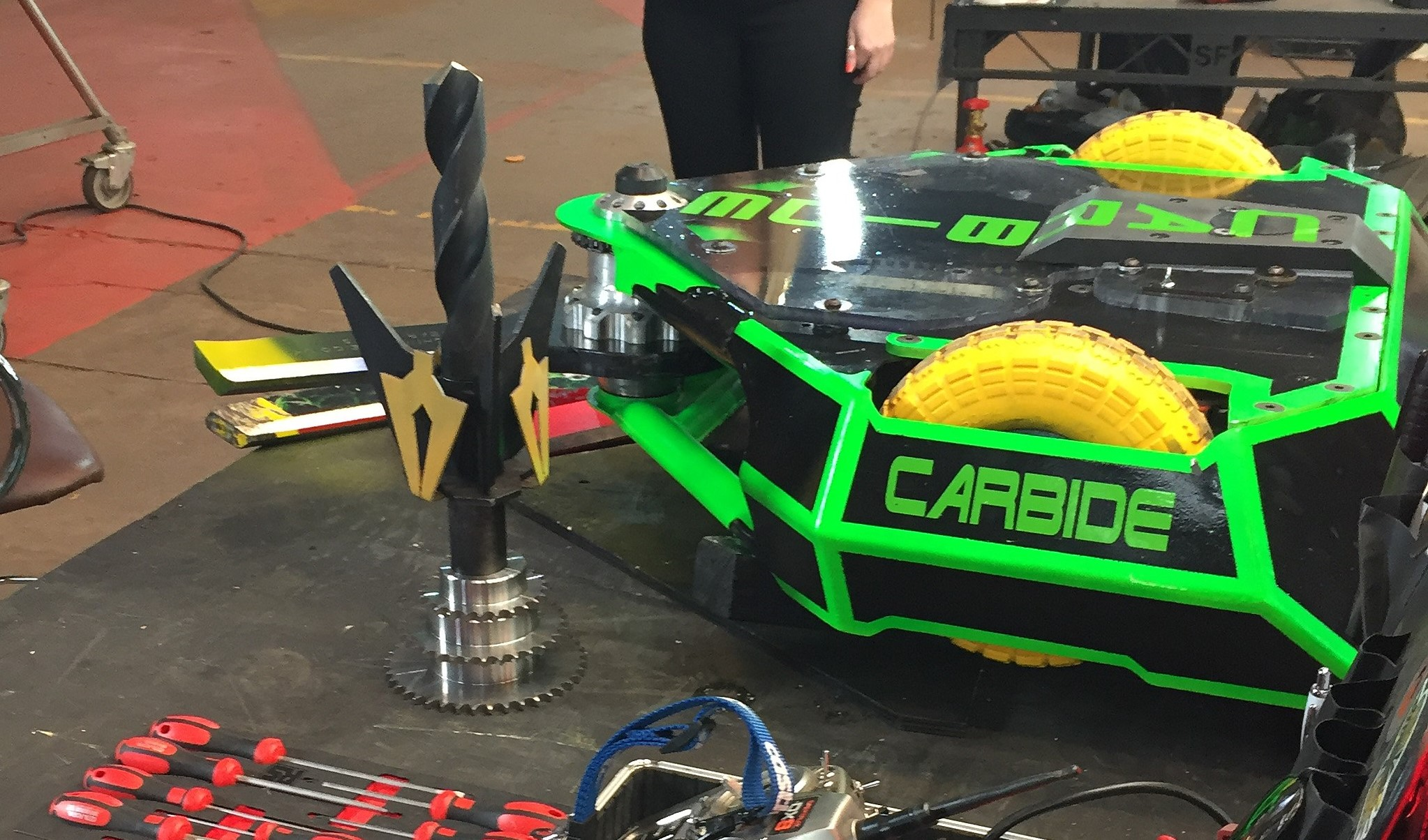 Photo of Carbide (robot) at the filming of Robot Wars 2017, with trophy from winning previous tournament.